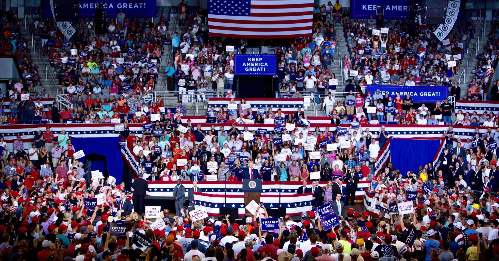 Together, we will continue unleashing the power of American enterprise, so every American can know the dignity of work and the pride of a paycheck. With your help, we will elect a Republican Congress to create a safe, modern, fair, and LAWFUL system of immigration!